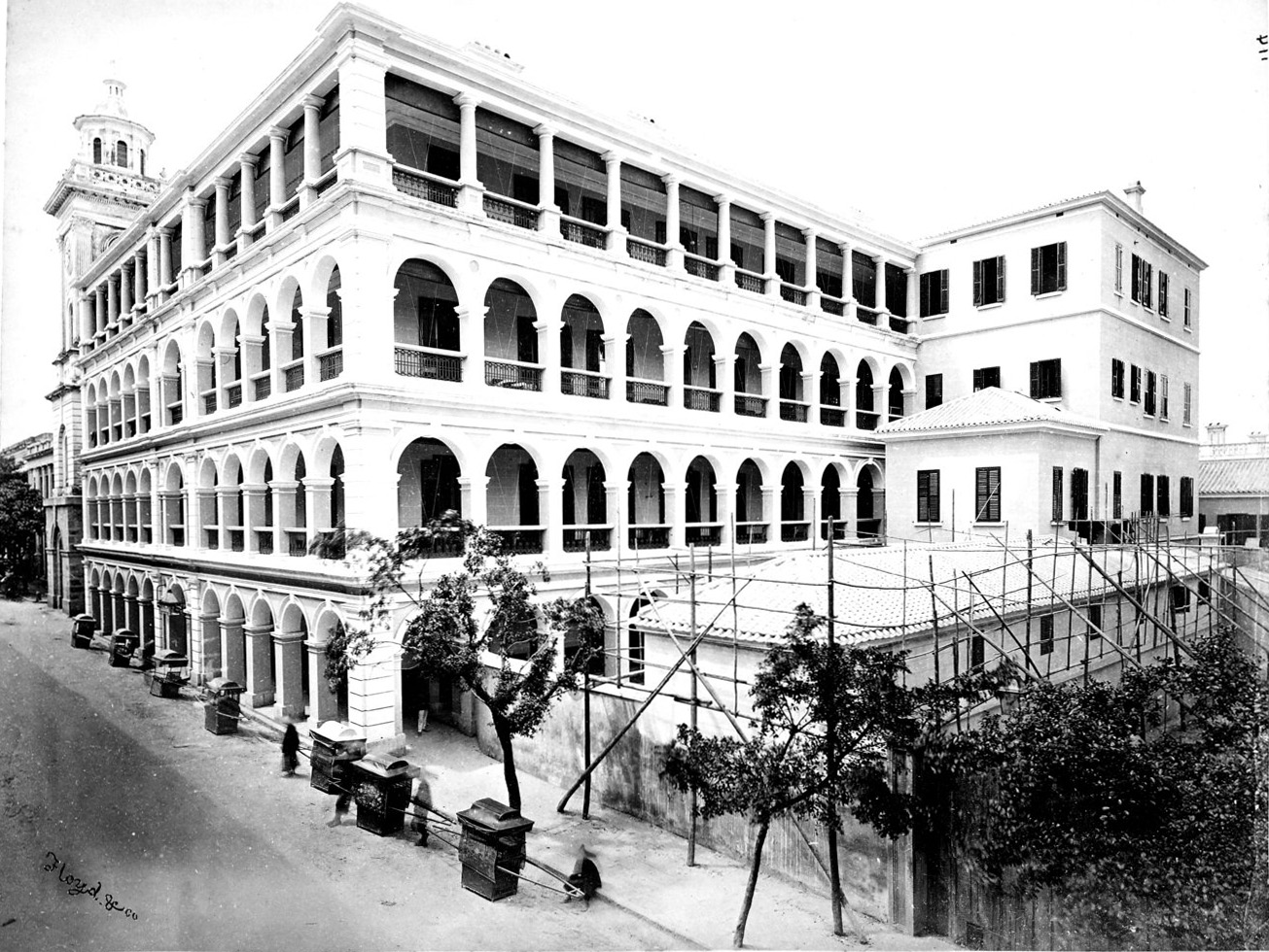 photo from Album of Hongkong Canton Macao Amoy Foochow